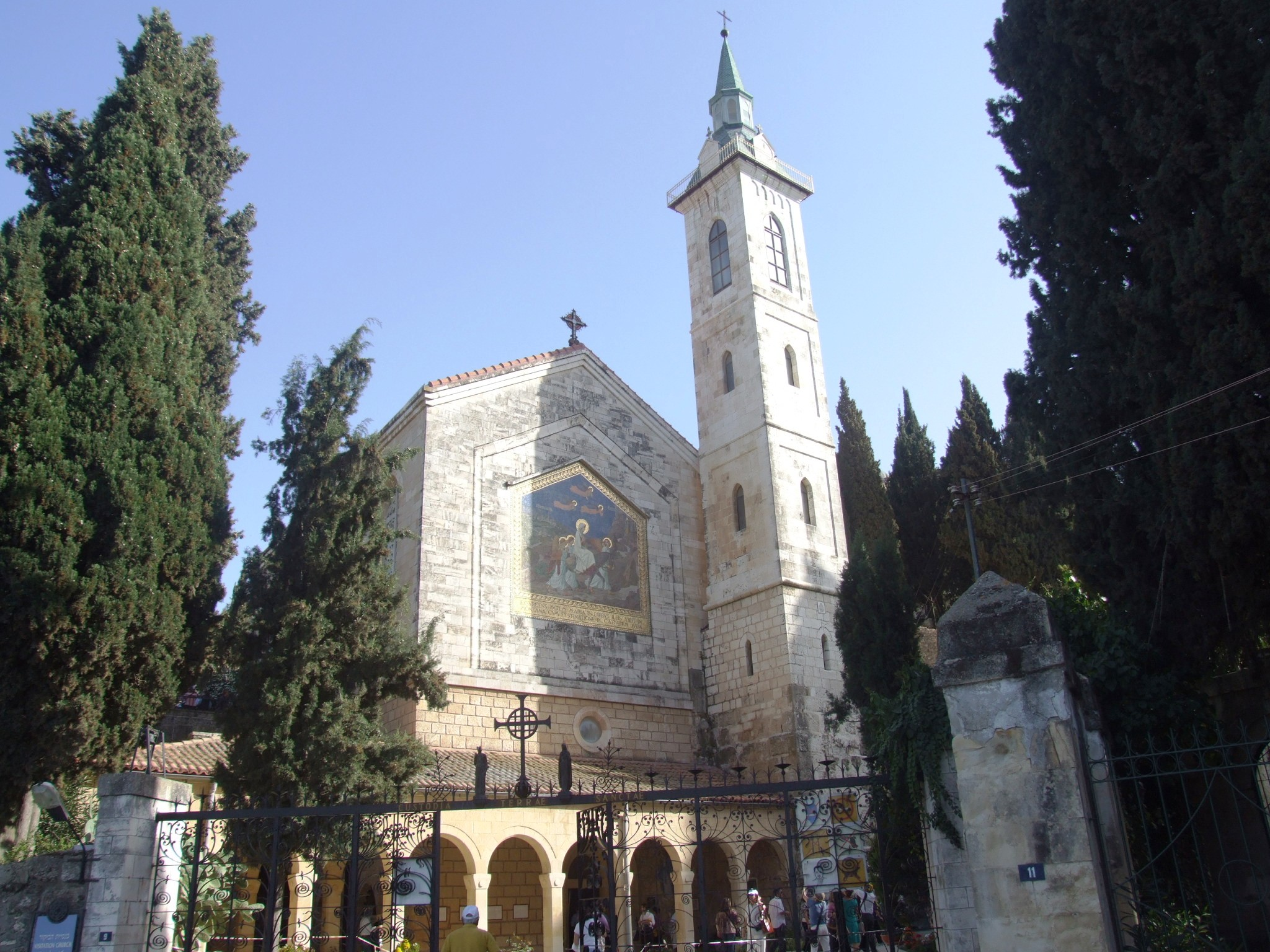 JERUSALEM, Geography of Israel